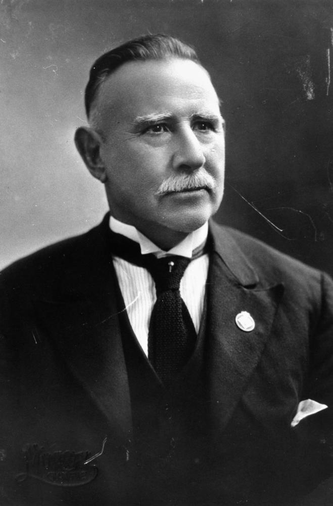 Thomas Edward Betts, chairman (1915) of Widgee Shire, Queensland, Australia